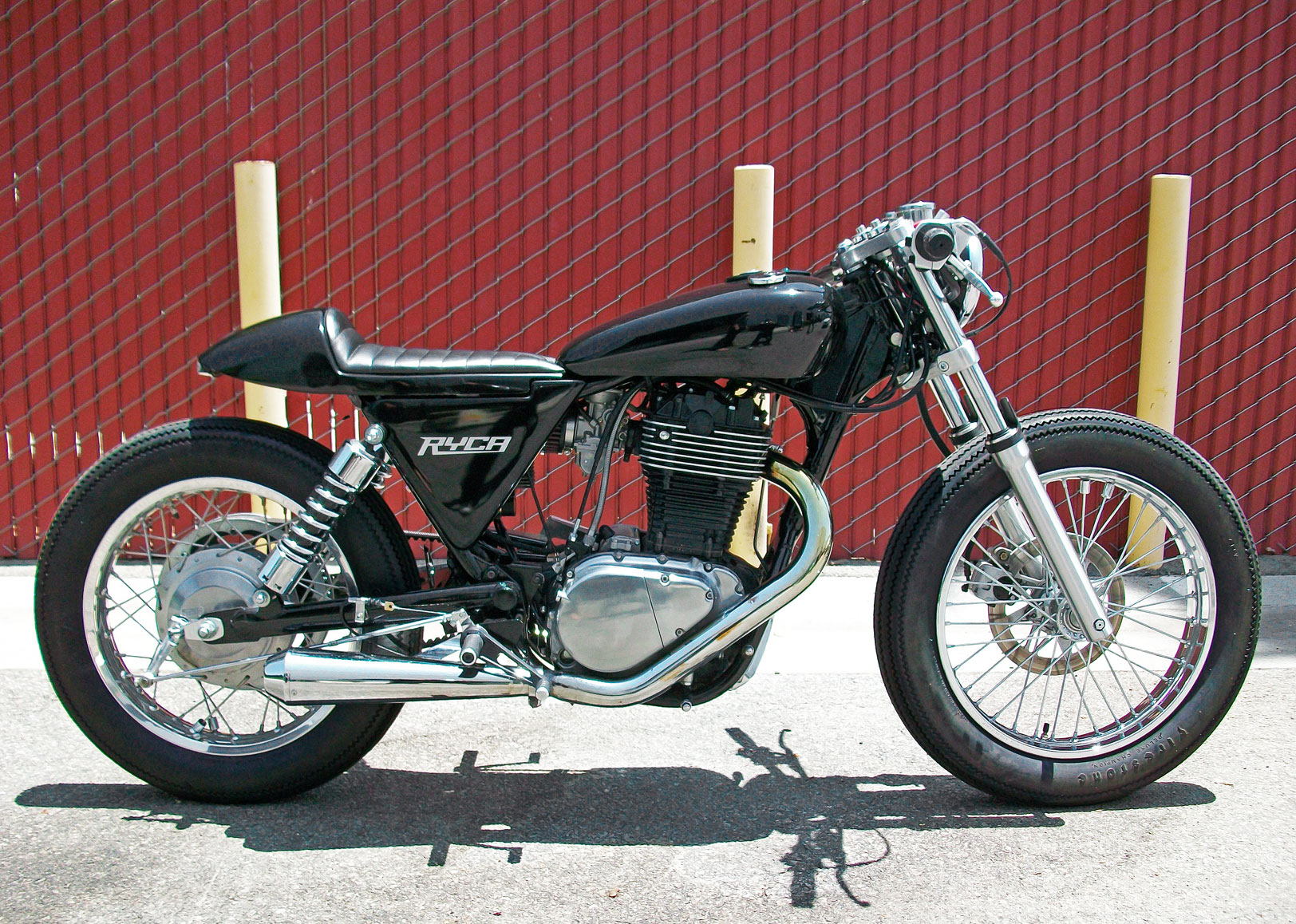 Ryca Motors CS-1 Suzuki S40 cafe racer